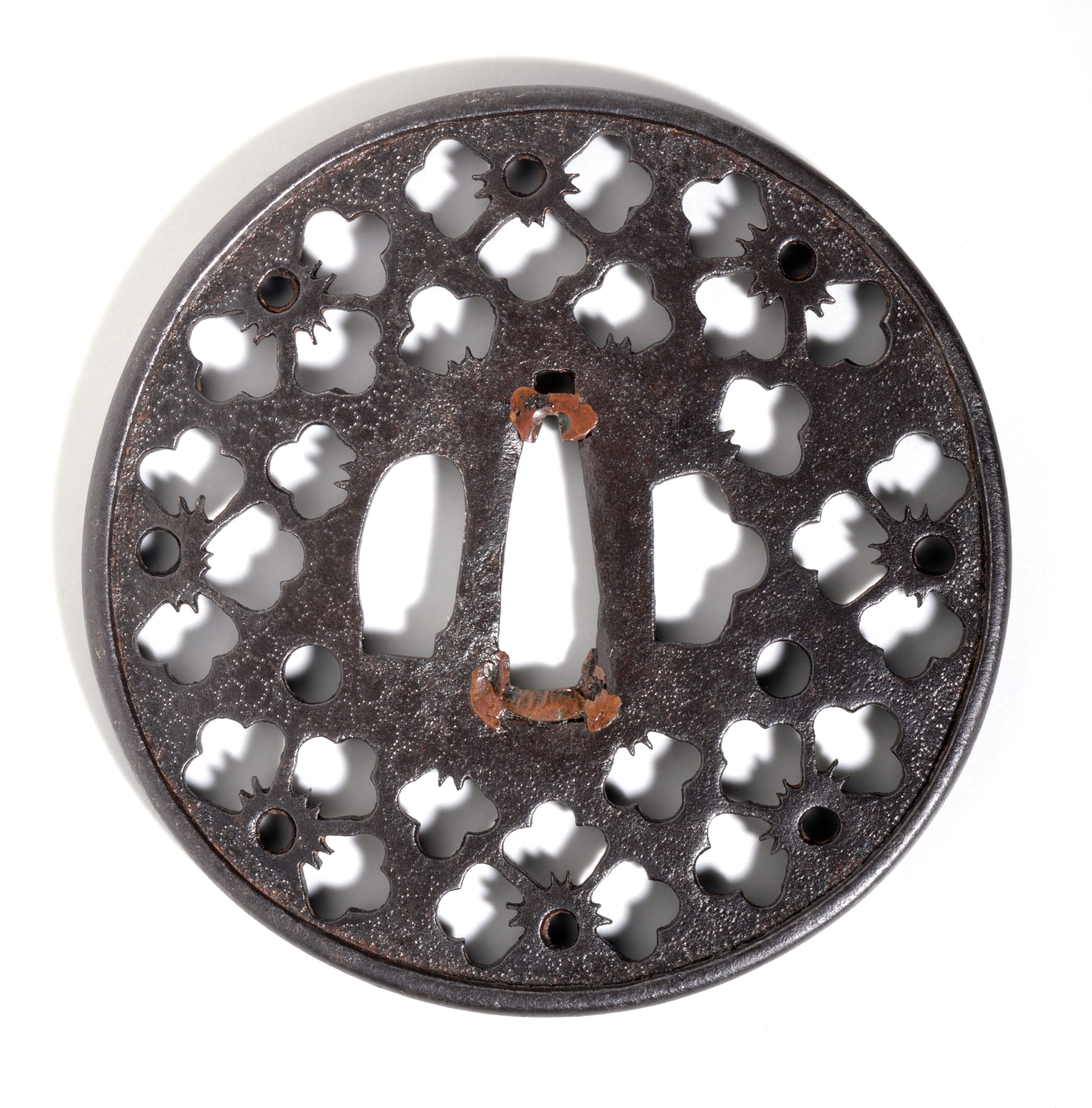 Japan, circa 1400 Descriptive: Openwork petals and stars Arms and Armor; swords Iron with stippled surface; openwork petals Diam: 3 3/4 in. (9.5 cm) Gift of Caroline and Jarred Morse (M.80.219.1) Japanese Art